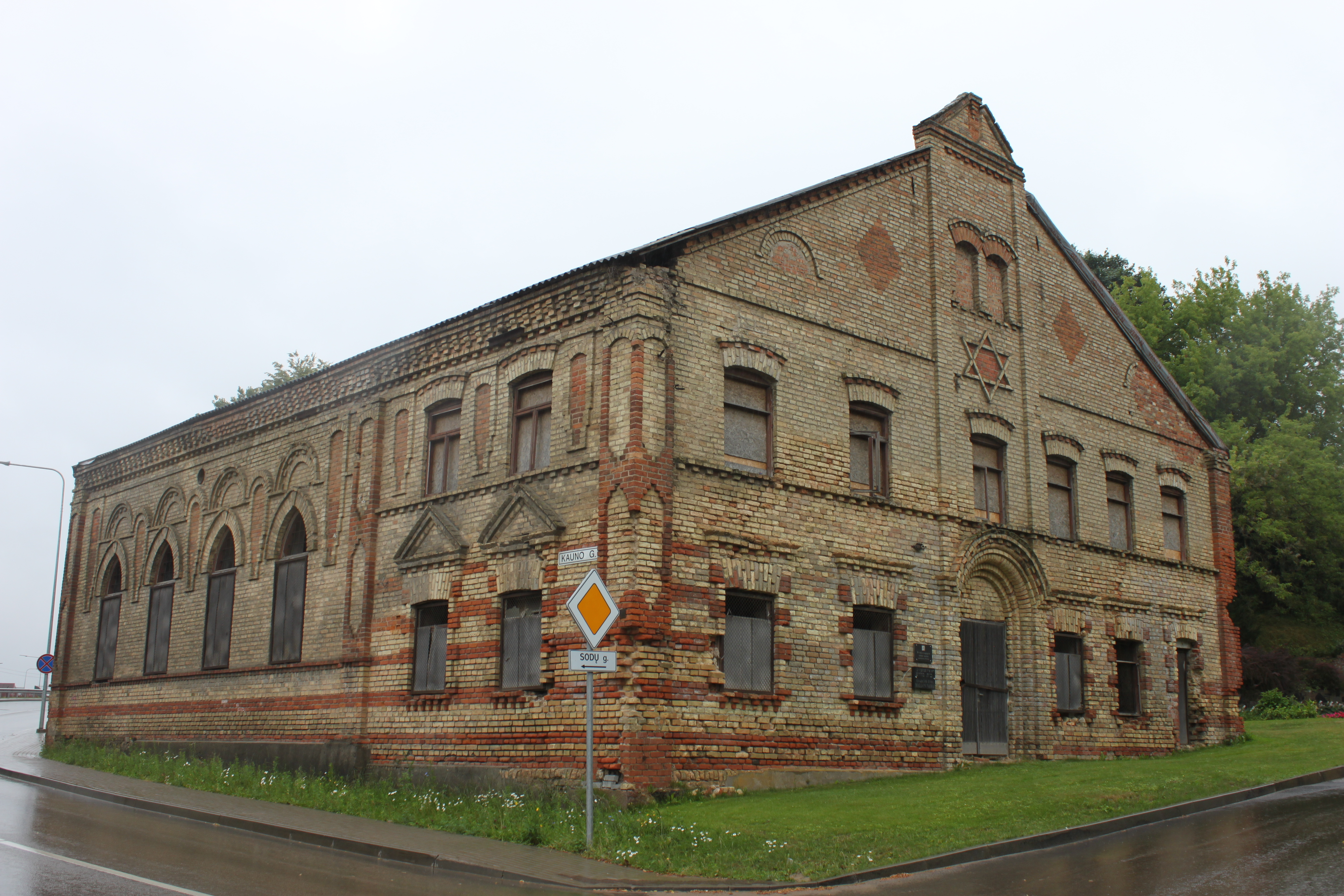 Alytus Synagogue, Lithuania